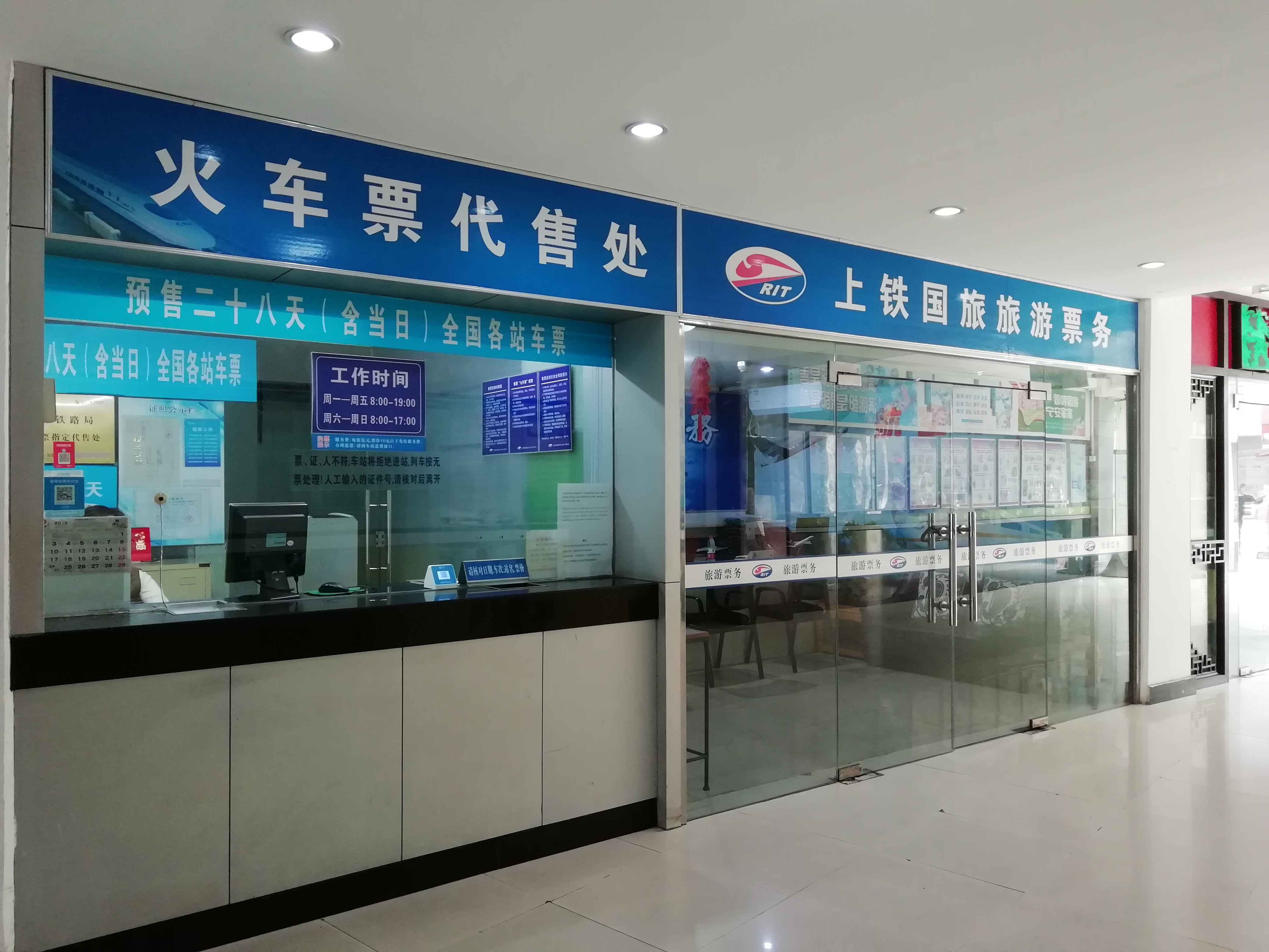 A Rail Ticket Agent, located in Suzhou Industial Park 中文（中国大陆）: 一家位于苏州工业园区的火车票代售点